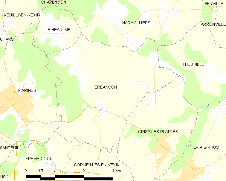 Map of French municipality Bréançon